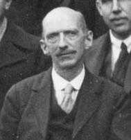 cropped from PD photo 1927 Solvay Conference on Quantum Mechanics